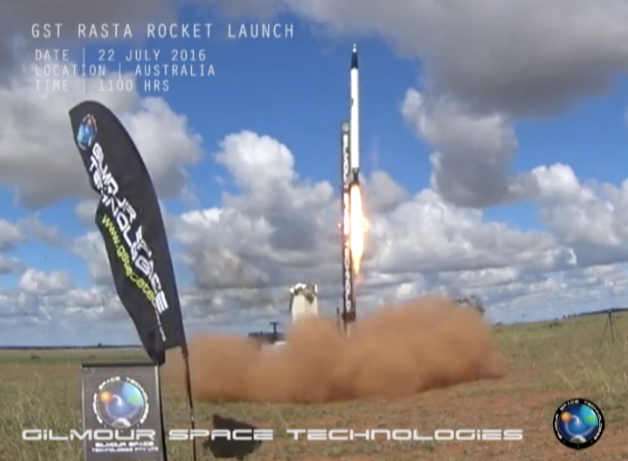 Rasta vehicle accelerating along launch rail after engine ignition.